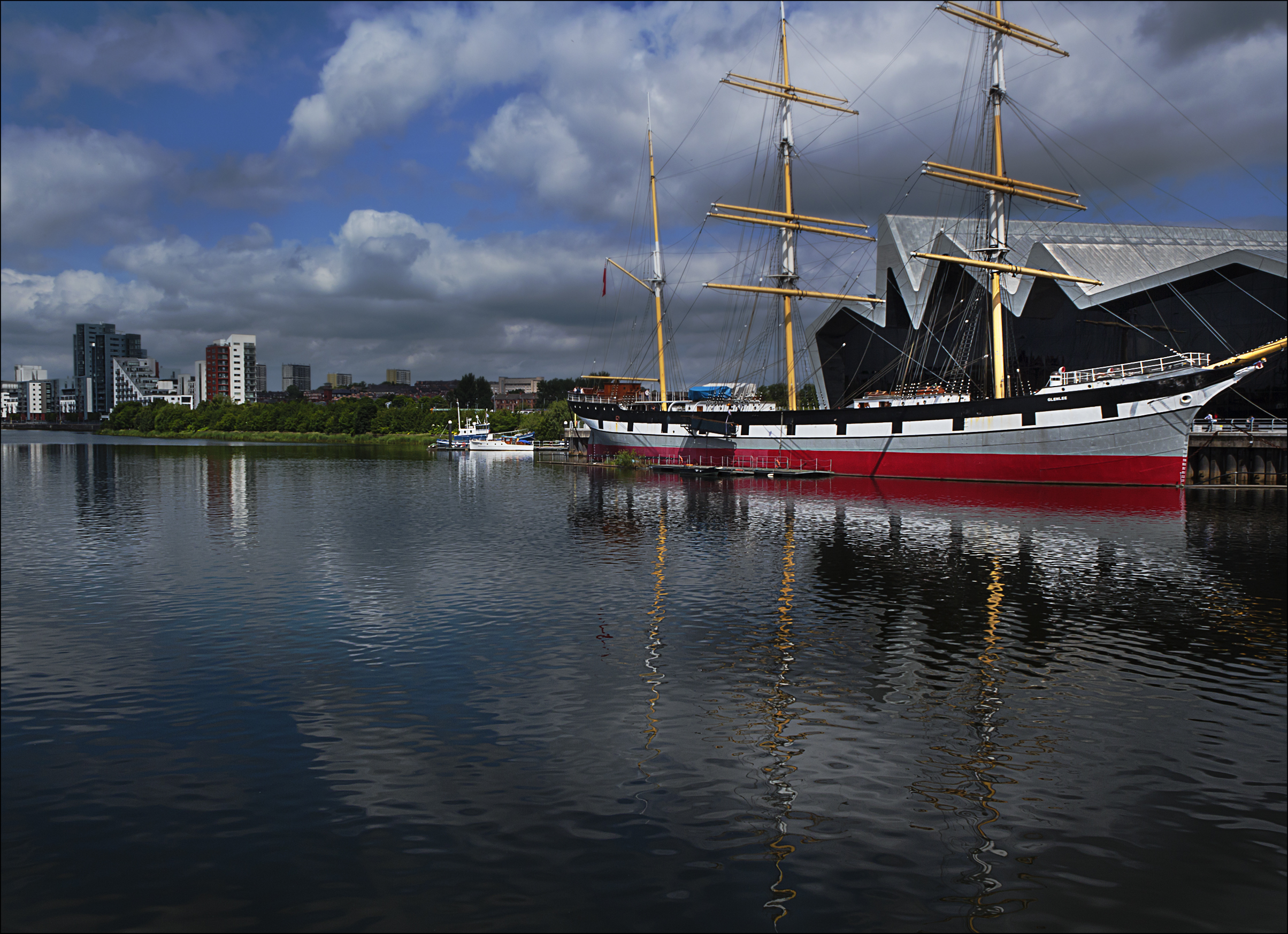 Glasgow